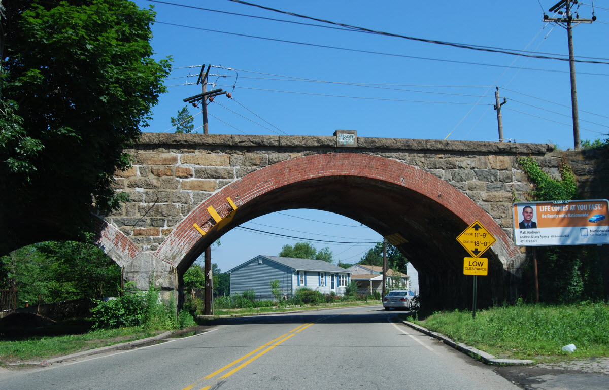 Historic railroad bridge, East Providence, Rhode Island